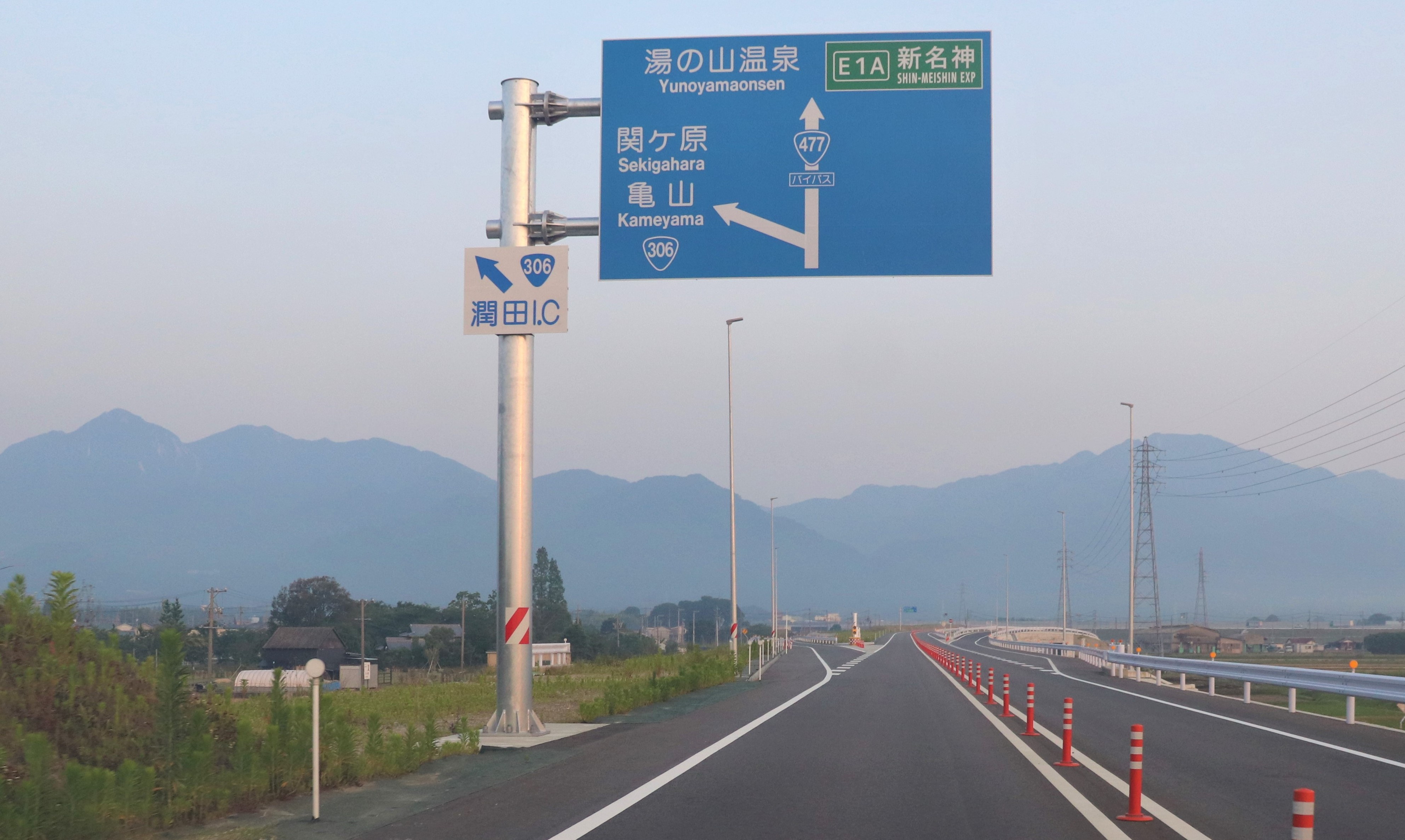 Uruda Interchange on Route 477 bypass in Komono, Mie Prefecture, Japan.